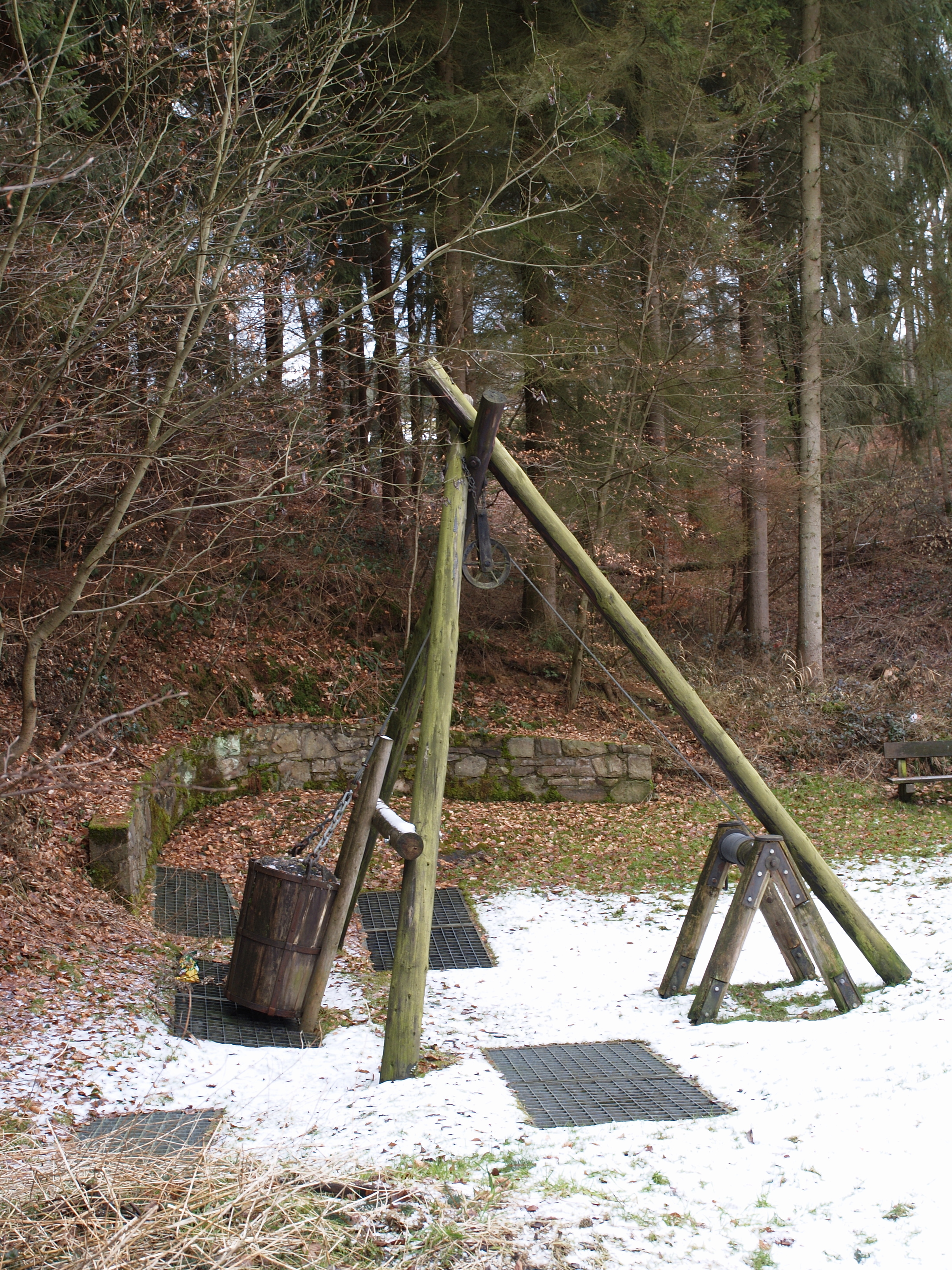 Mining by a tripod coal elevator in the Mutten Valley, Witten, Germany